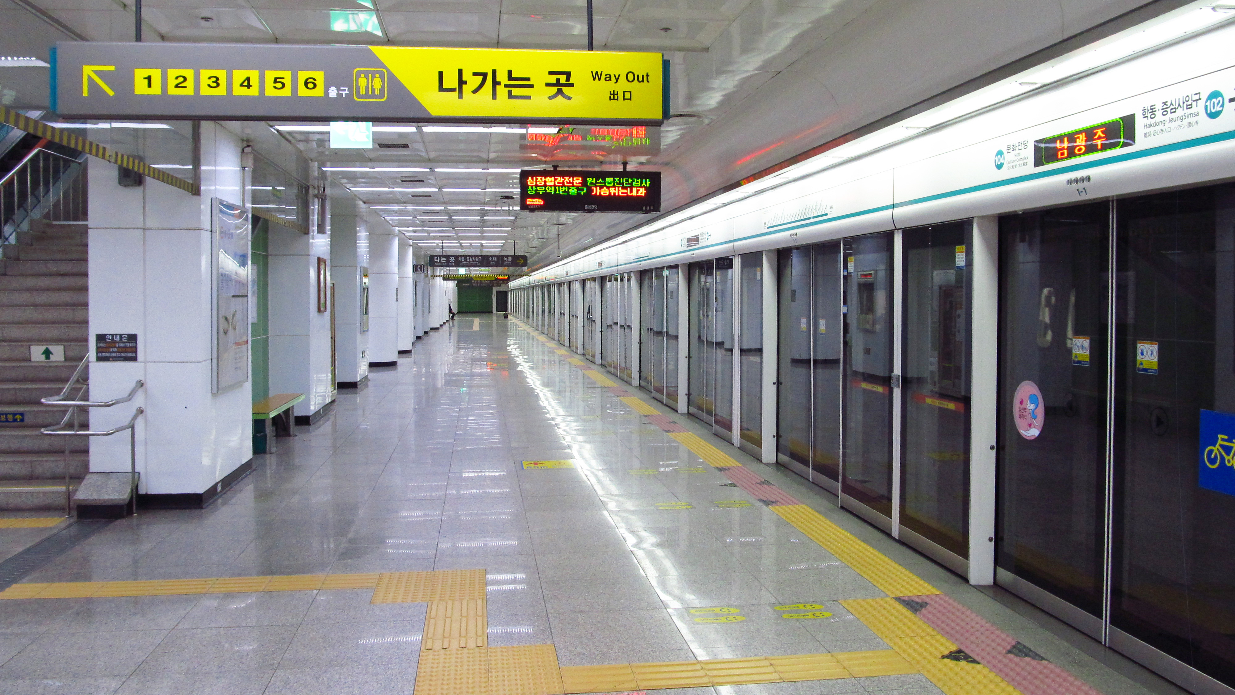 The platform at Namgwangju Station on Gwangju Metro Line 1 in Dong-gu, Gwangju, Republic of Korea(South Korea)